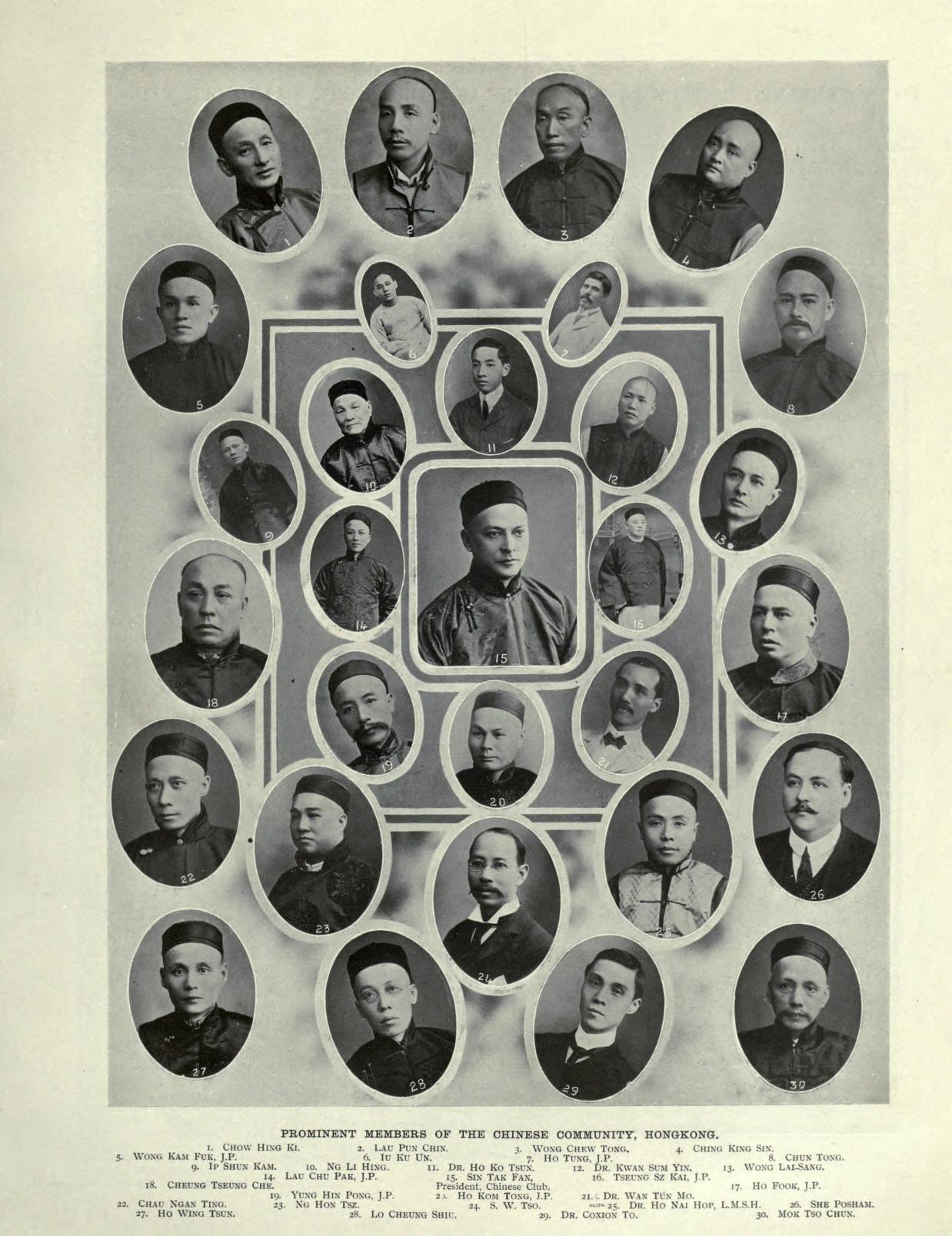 Prominent members of the Hong Kong Chinese community; Picture 5: Huang Jinfu, Picture 7: Robert Ho Tung, Picture 15: Sin Tak Fan, Picture 17: Ho Fook, Picture 18: Zhang Xiangzhi, Picture 20: Ho Kam Tong, Picture 28: Lo Cheung Shiu, Picture 30: Mok Tso Chun (莫藻泉)